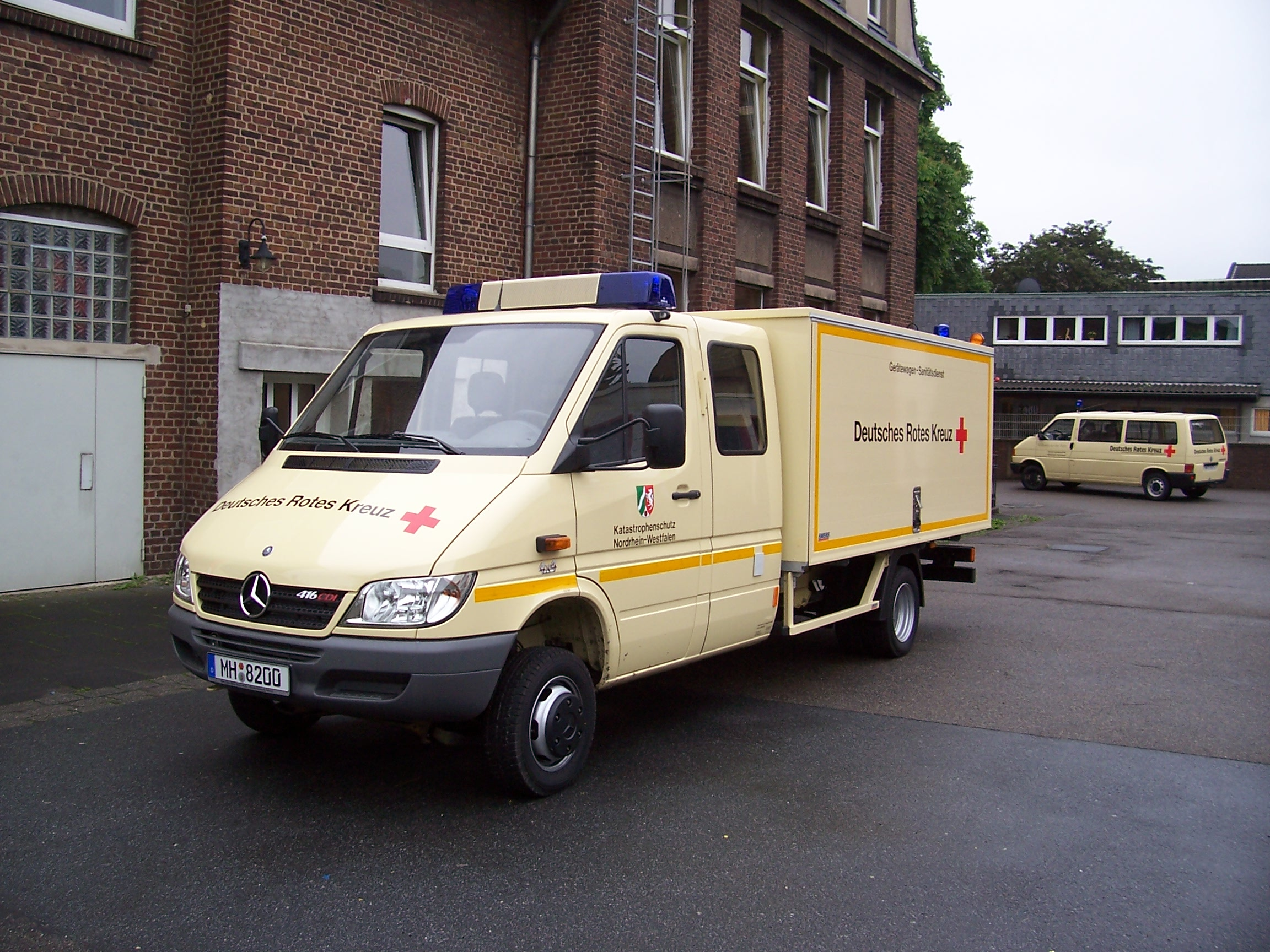 Equipment vehicle for medical service. This vehicle is property of Northrhine-Westfalia and lend to the Red Cross.